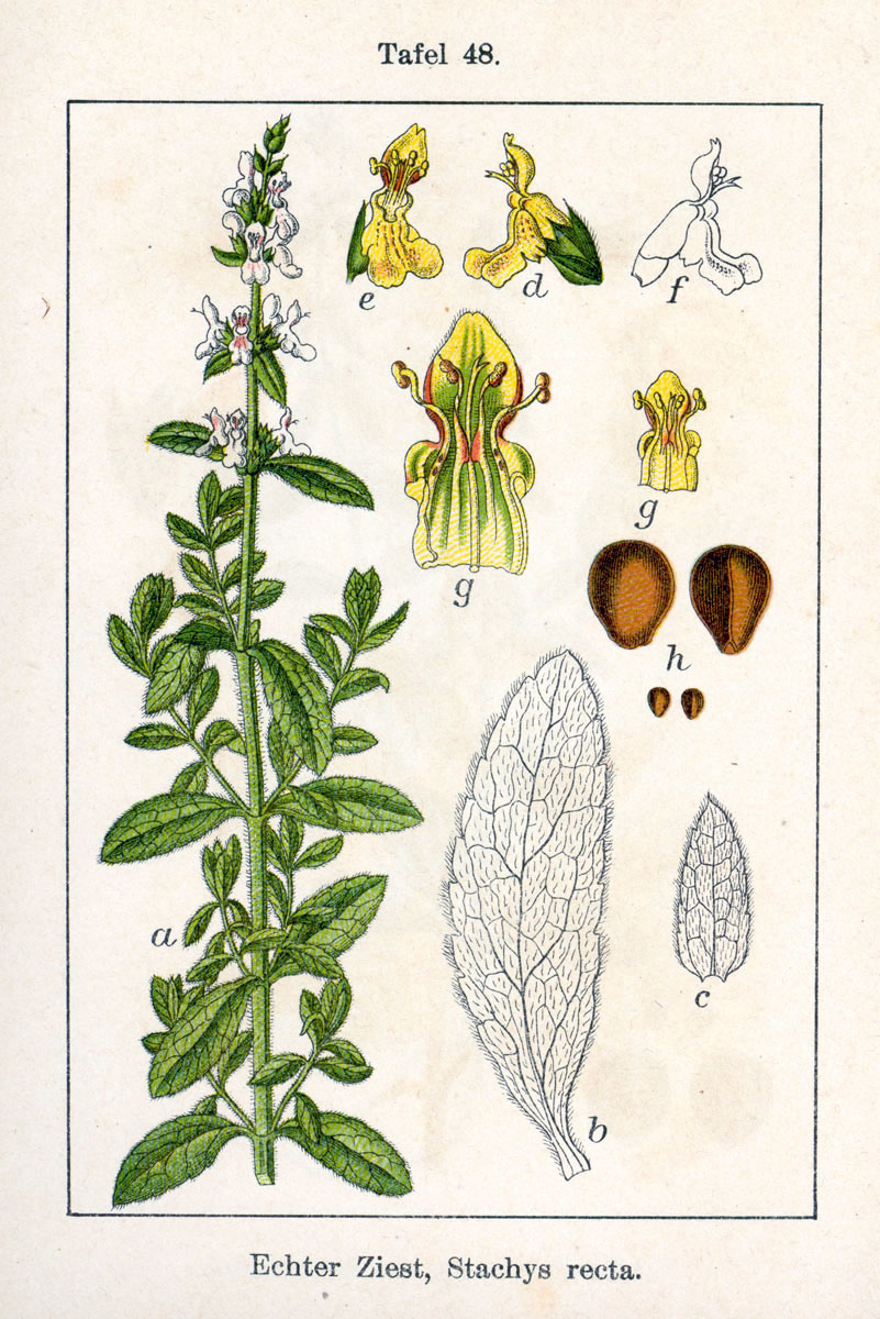 Stachys recta L. Original Description Echter Ziest, Stachys recta